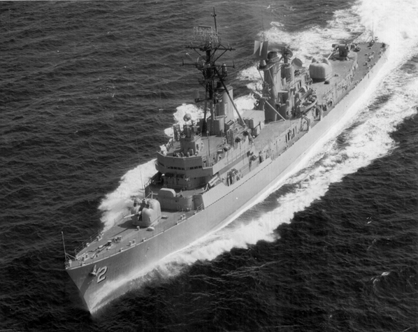 The U.S. Navy guided missile destroyer USS Charles F. Adams (DDG-2) underway shortly before or after her commissioning, circa in the summer/autumn of 1960.